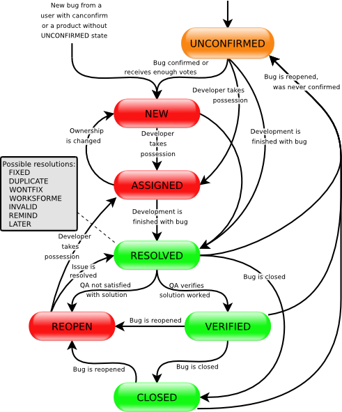 Bugzilla's lifecycle in color, with aqua-styled states